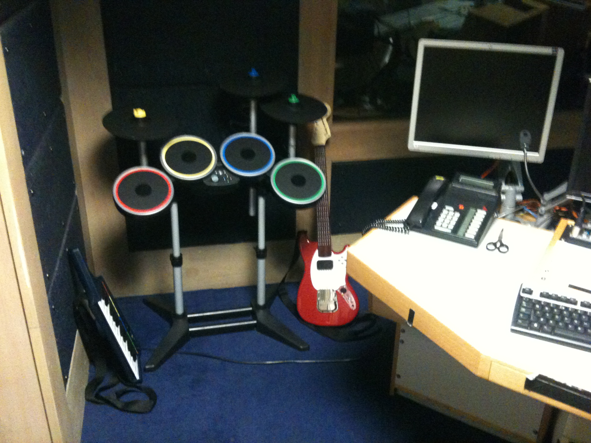 Rock Band 3 controllers Wireless Keyboard by Mad Catz Wireless PRO-Drum & PRO-Cymbals Kit by Mad Catz Fender® Mustang Pro-Guitar Controller